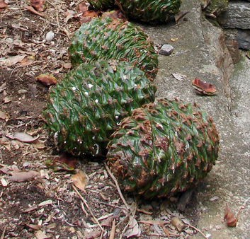 Bunya (Araucaria bidwillii) cones, Queensland.